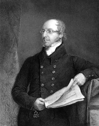 German philologist and bookseller Karl Friedrich Cramer (1752-1807) by Benjamin Phelps Gibbon (1802-1851) after William Watts [?=Frederick William Watts (1800-1862)]